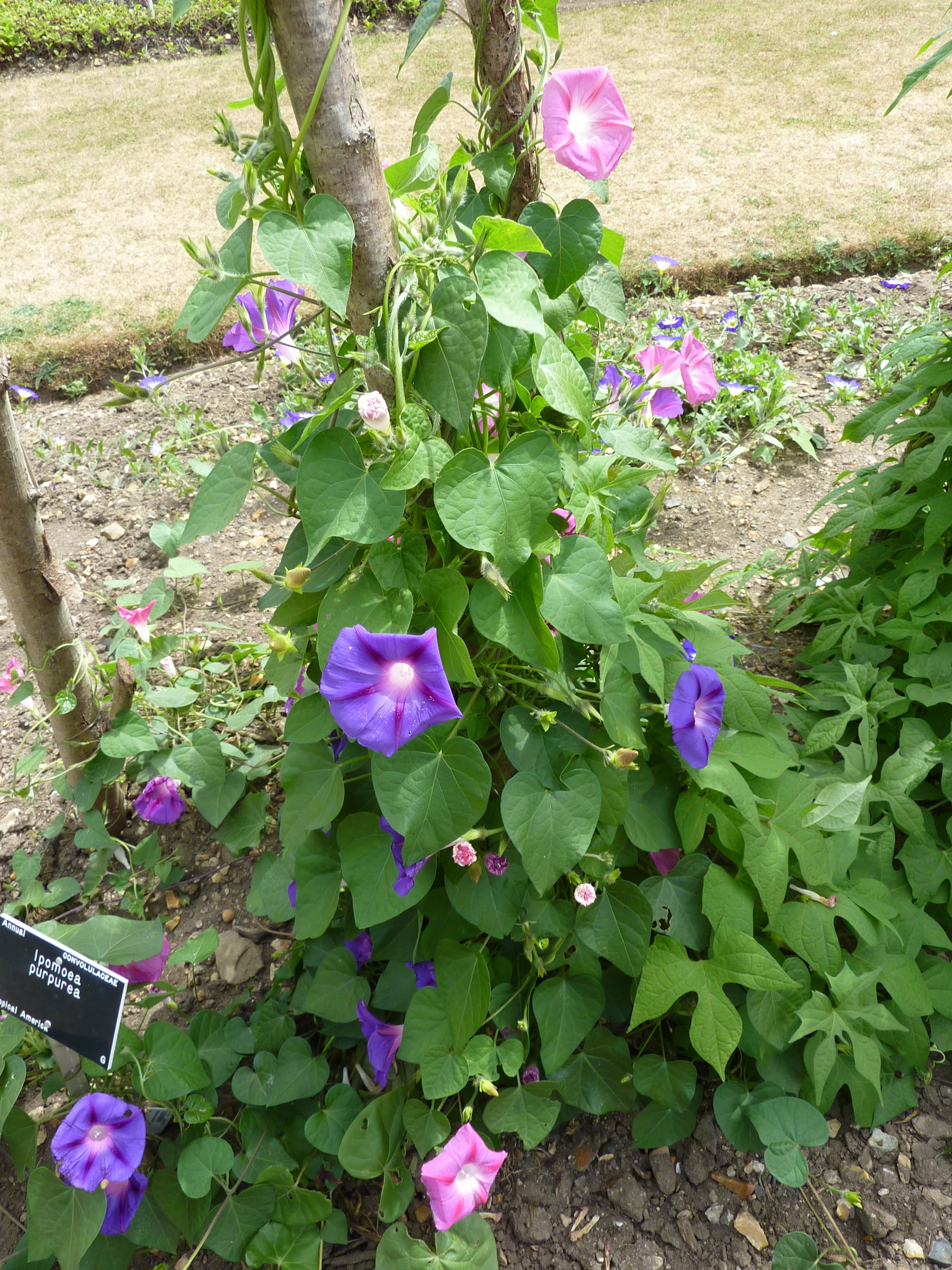 Taken in the Cambridge University Botanic Garden